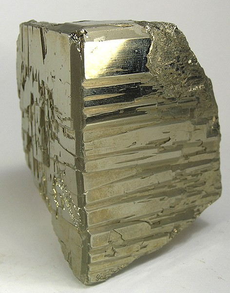 Pyrite Locality: St. Louis Tunnel (Rico Argentine), Rico District (Pioneer District), Dolores County, Colorado, USA (Locality at ) Size: 6.1 x 4.9 x 4 cm. This would be an impressive crystal for Peru, for its "engraved"-looking faces, shiny-metallic luster and size - but it is actually an old Colorado pyrite, and therefore that much more desirable! The back side of the crystal is not complete, but most of it is covered with micro-faces, indicating that it was loose in the pocket and healed while still there. One of the front faces is decorated with these elongated grooves, and the other has a pretty terraced appearance. From the collection of Gene Meieran.